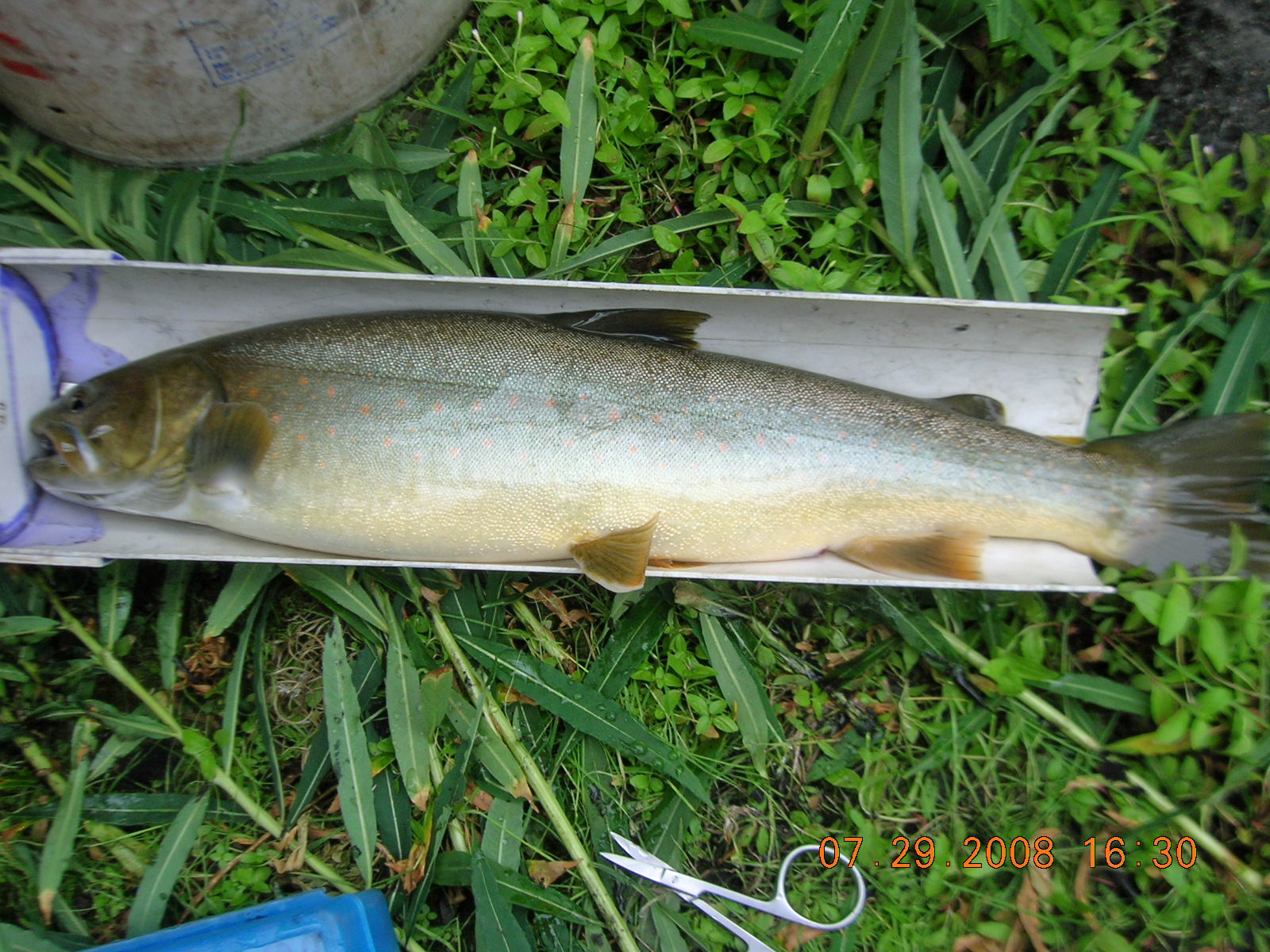 Bull trout (Salvelinus confluentus) caught in Warm Springs Creek in the White Cloud Mountains in Sawtooth National Recreation Area in Custer County, Idaho